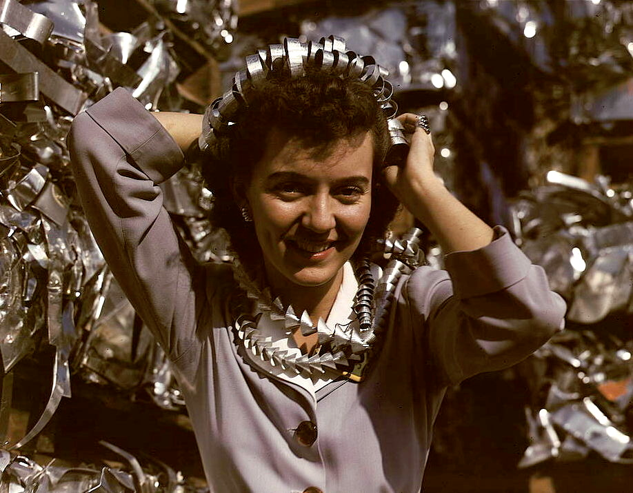 Annette del Sur publicizing salvage campaign in yard of Douglas Aircraft Company, Long Beach, Calif. Palmer, Alfred T., photographer. CREATED/PUBLISHED 1942 Oct. NOTES B&w photograph in Lot 12002-39. Transfer; FSA-OWI; 1944. SUBJECTS Douglas Aircraft Company Airplane industry World War, 1939-1945 Salvage United States--California--Long Beach Transparencies--Color MEDIUM 1 transparency : color. CALL NUMBER LC-USW36-116 REPRODUCTION NUMBER LC-DIG-fsac-1a35347 DLC (digital file from original transparency) LC-USW361-116 DLC (color film copy slide) PART OF Farm Security Administration - Office of War Information Collection REPOSITORY Library of Congress Prints and Photographs Division Washington, D.C. 20540 USA DIGITAL ID (digital file from original transparency) fsac 1a35347